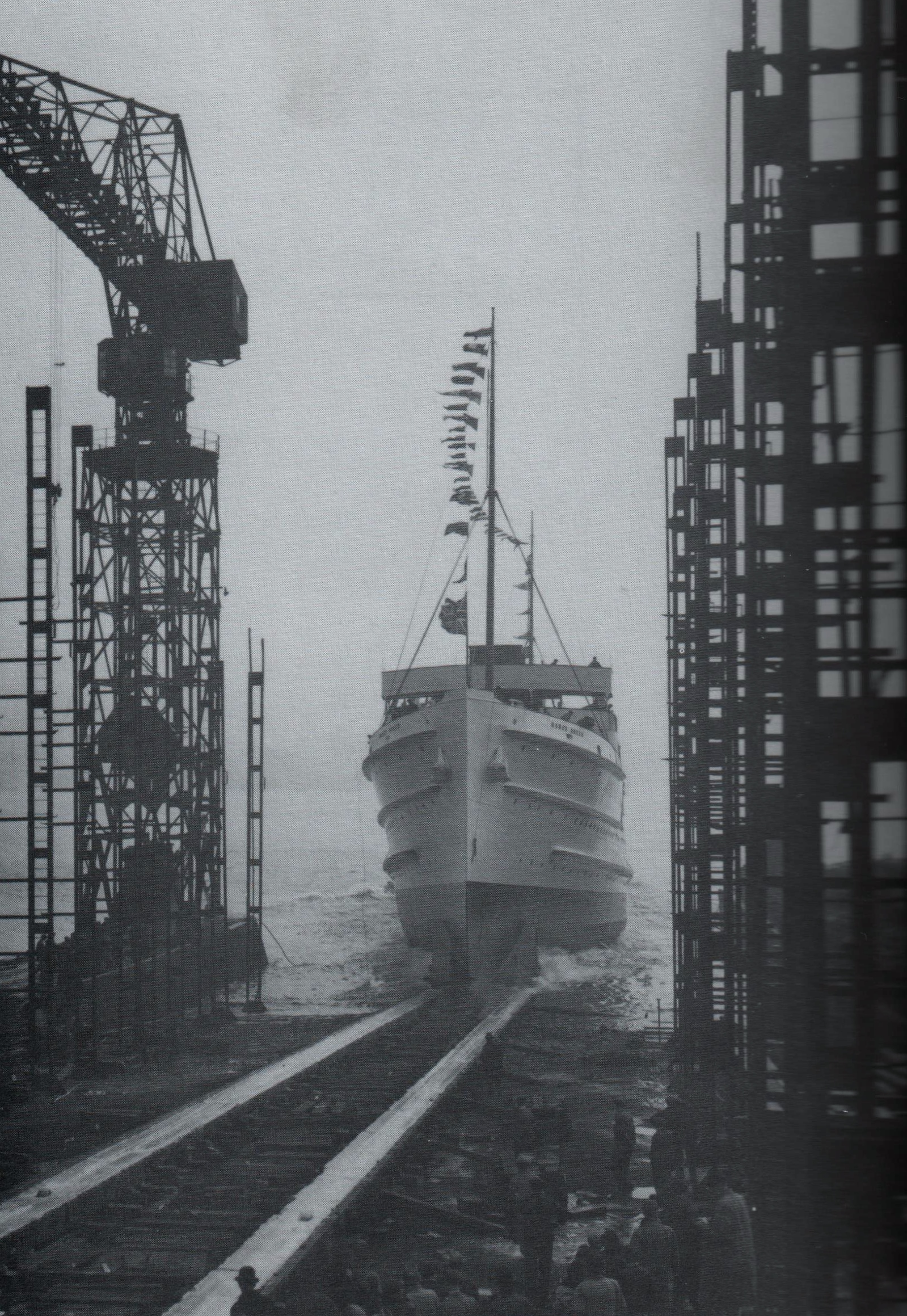 Mona's Queen is launched at Cammell Laird.